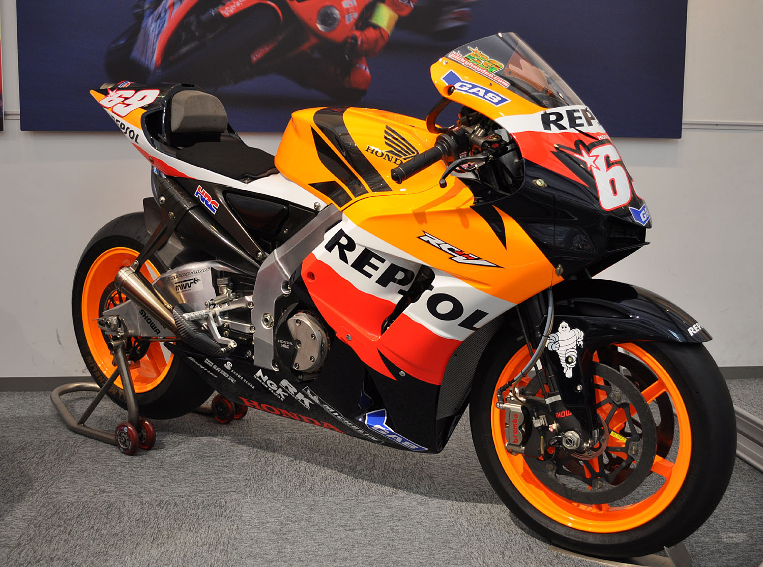 Honda RC211V, Nicky Hayden, 2006 New Generation